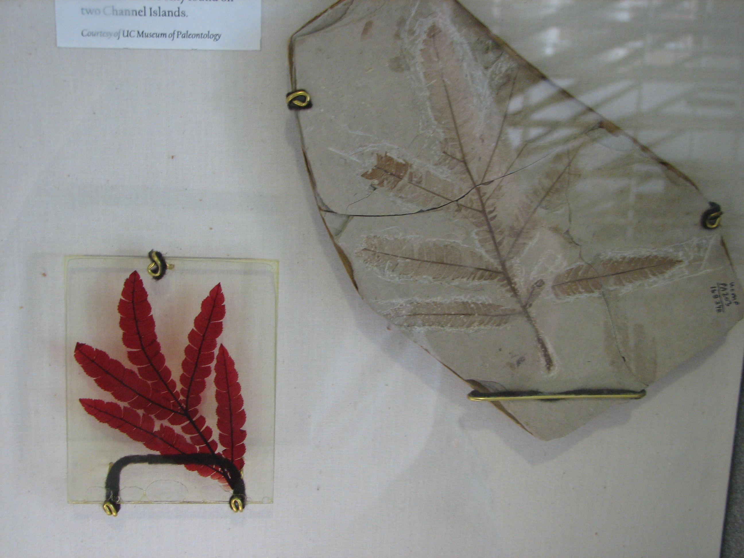 Fossil and cleared leaf of Lyonothamnus (Rosaceae)